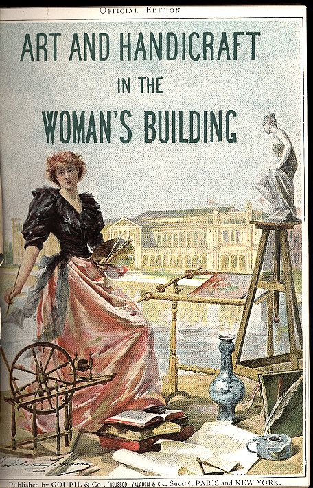 1893 Chicago Worlds Fair - Catalog for Art and Handicraft in the Woman's Building